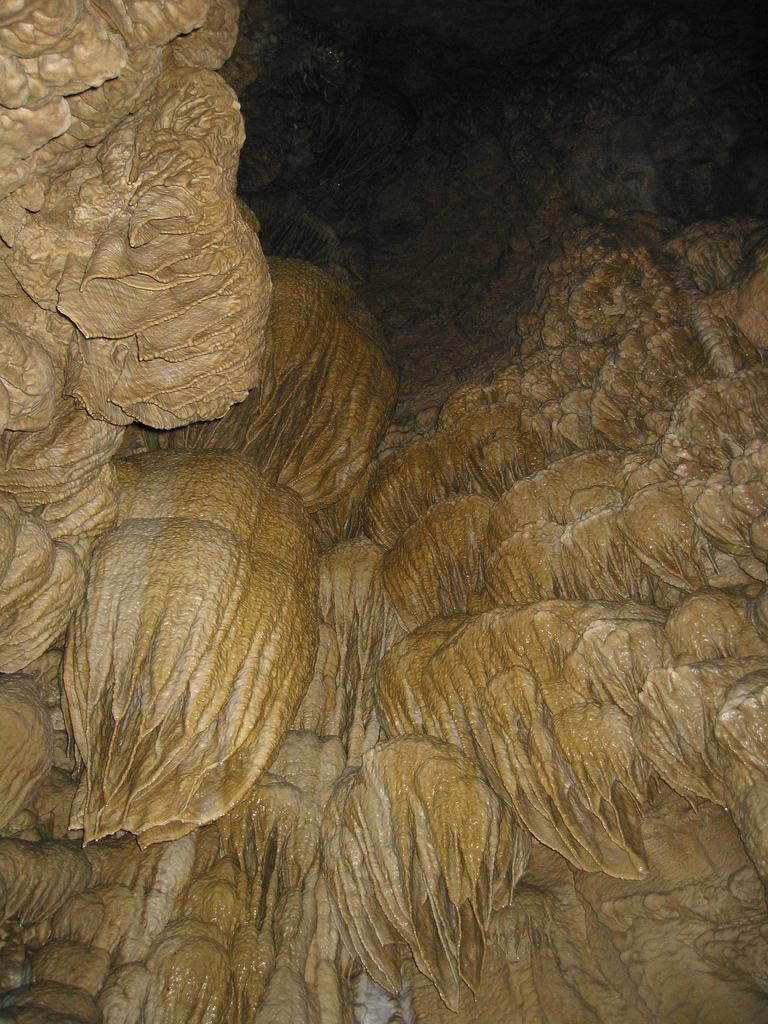 Place: Oregon Caves National Monument@Siskiyou National Forest@Oregon@USA